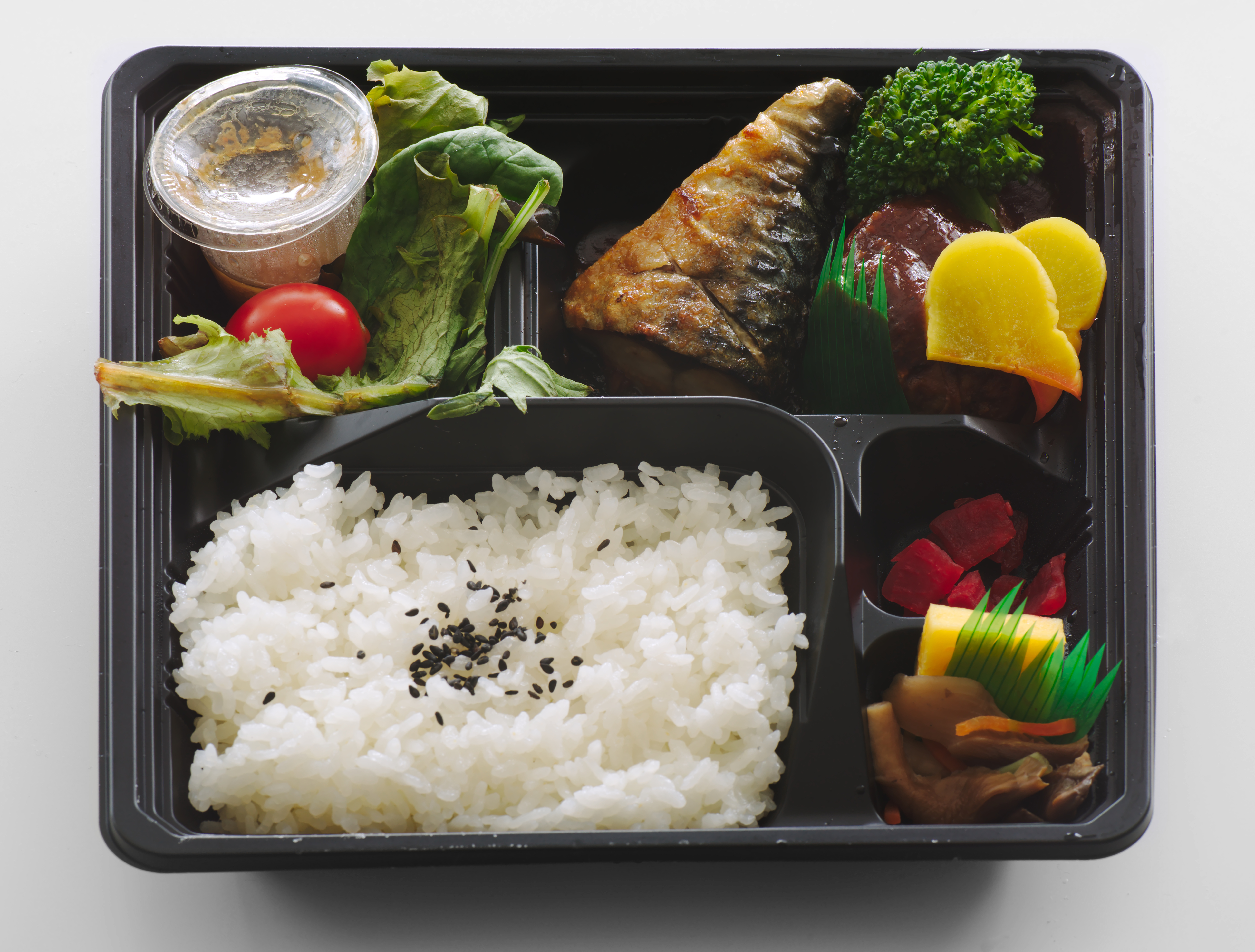 A typical bento. Clockwise from top left: Salad consisting of lettuce and cherry tomato; grilled mackerel; beef meatball (with daikon radish inside), broccoli, and takuan; fukujinzuke; tamagoyaki; pickled mushroom; and rice.